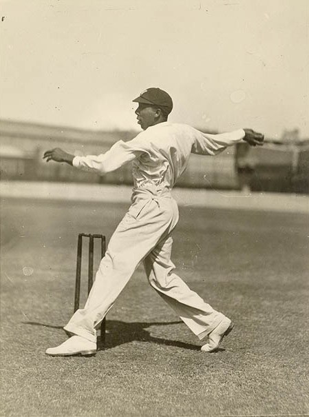 Learie Constantine, Weste Indian cricketer of the 1930s